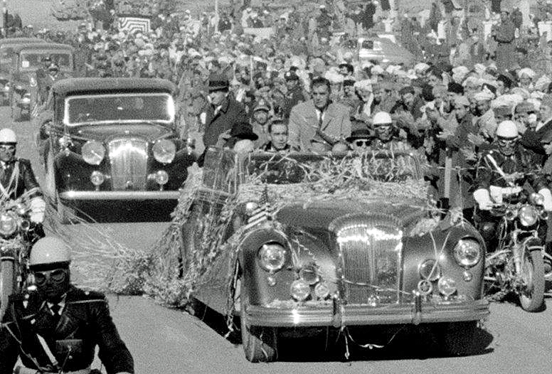 crop of image of Motorcade for President Eisenhower's visit to Kabul, Afghanistan. United States President Dwight D. Eisenhower visited Afghanistan in 1959.